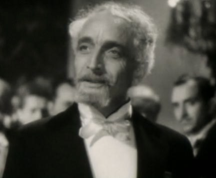 Fritz Leiber in The Story of Louis Pasteur (1936) - trailer (cropped screenshot)